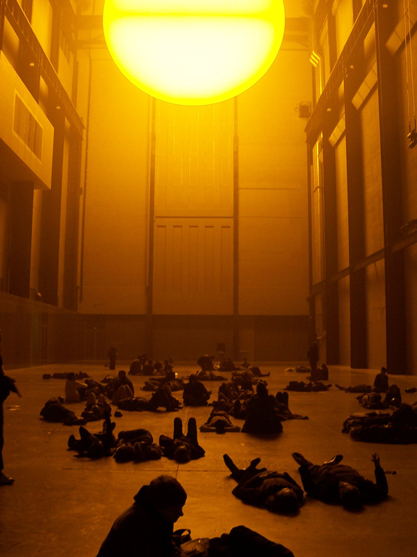 Saturday nights have late hours for Tate Modern. Using those late night admissions hours allowed me to cram more sights into my London itinerary that I could have done otherwise. Tate Modern is located on the Southbank in a former power plant, and this art installation is located in what once was the boiler room. Walking from the Jubilee Line Extension to here was a bit dicey in the dark, however. Jamaican thugs taunted me, similar to thugs in Amsterdam back in 1999. I was not having any of it, but at least here in London, those thugs are the exception rather than the rule they were in Amsterdam.